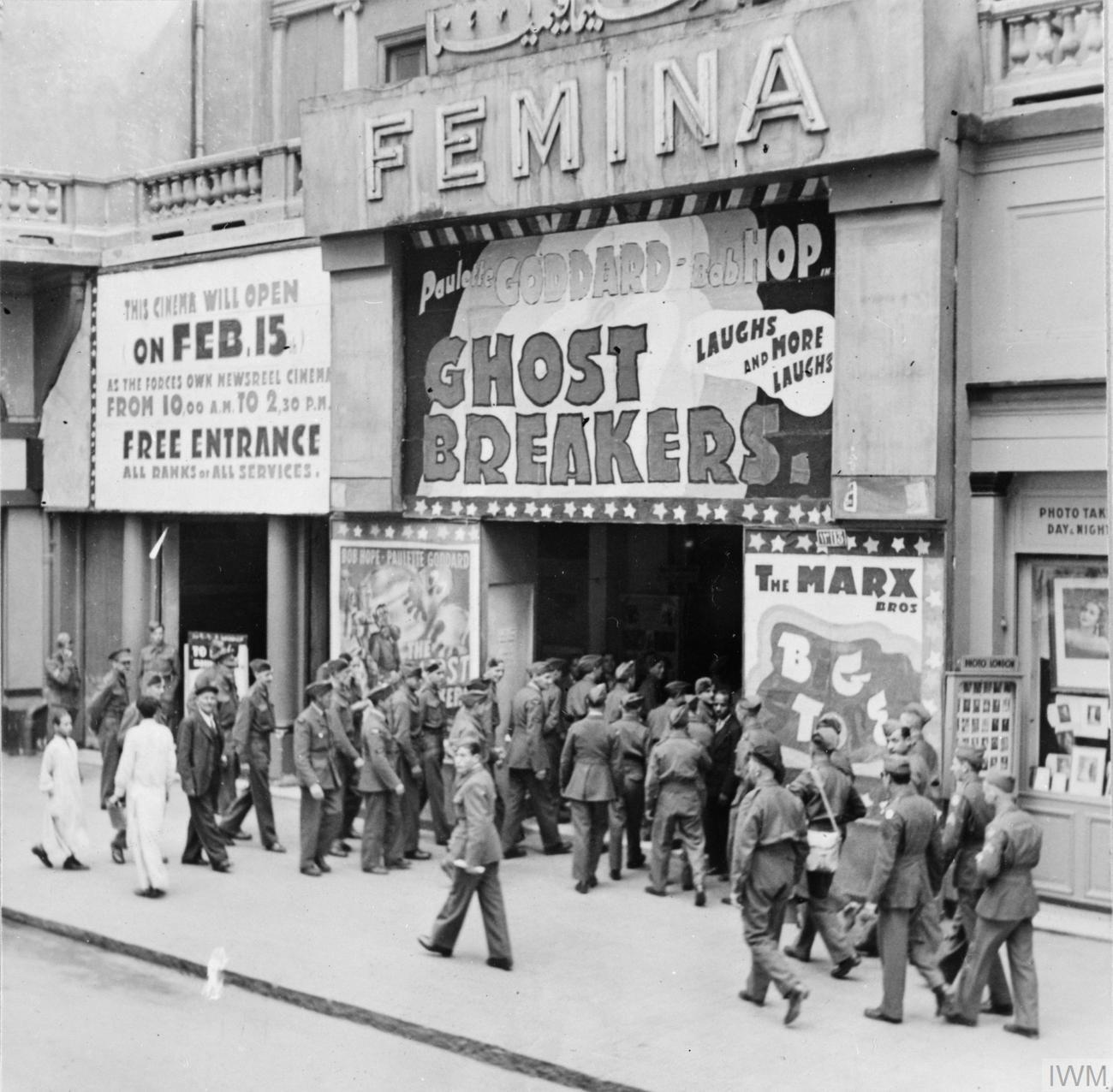 The British Army in Egypt, 1943 Entertaining the troops: Cinema was a popular form of recreation for men and women in uniform. A crowd of British men in uniform entering the Femina Cinema in Cairo, Egypt where, as a placard announces, programmes are free to “all ranks of all services” from 15 February. Posters advertise Paulette Goddard and Bob Hope in "The Ghost Breakers" and the Marx Brothers in "The Big Store".